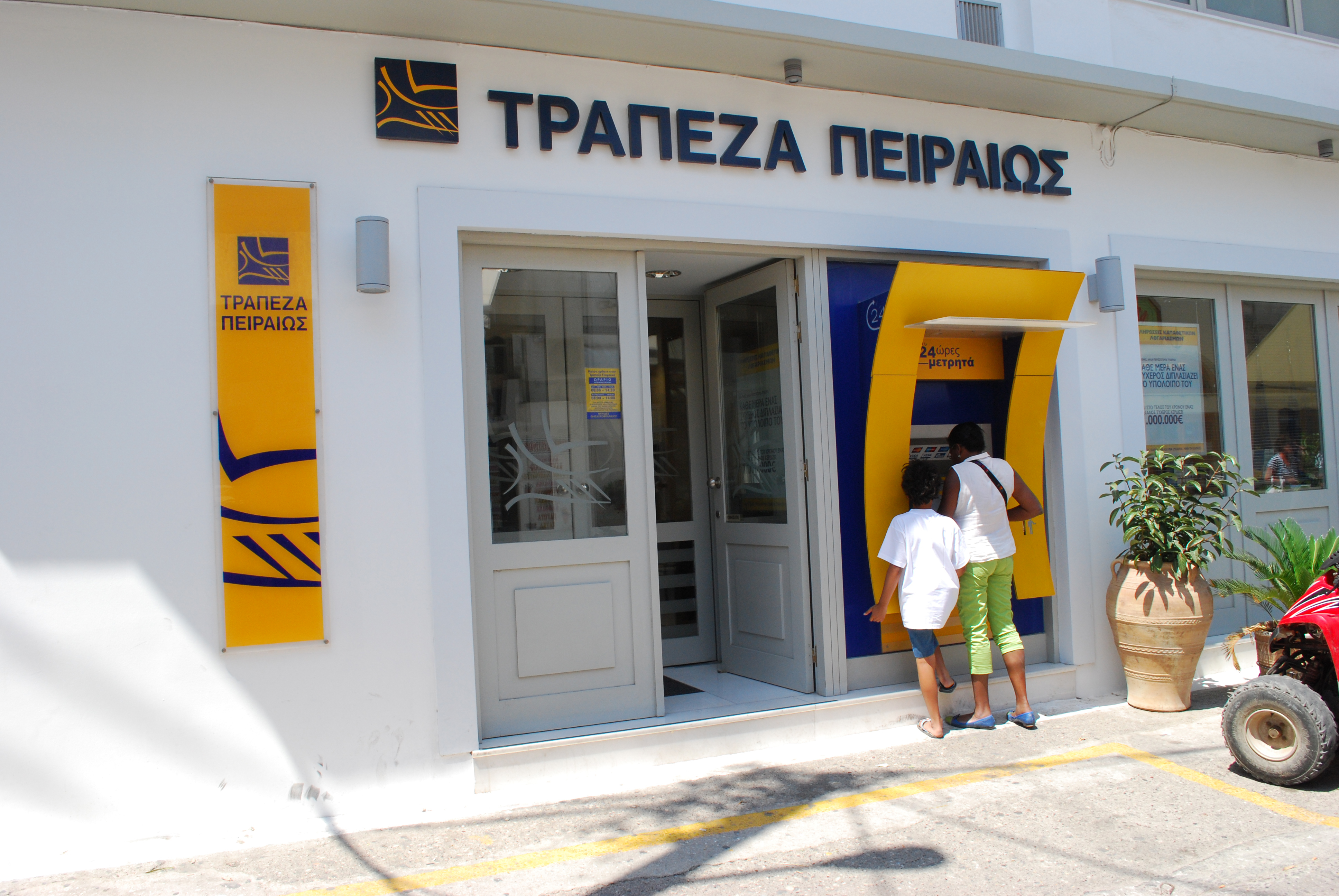 Street in Spetses ; Peiraeus Bank cash machine.